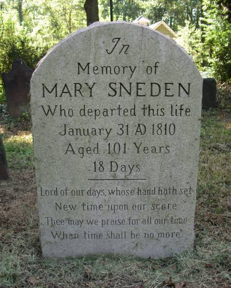 Tombstone of Mary Sneden, Palisades Cemetery, Palisades, NY